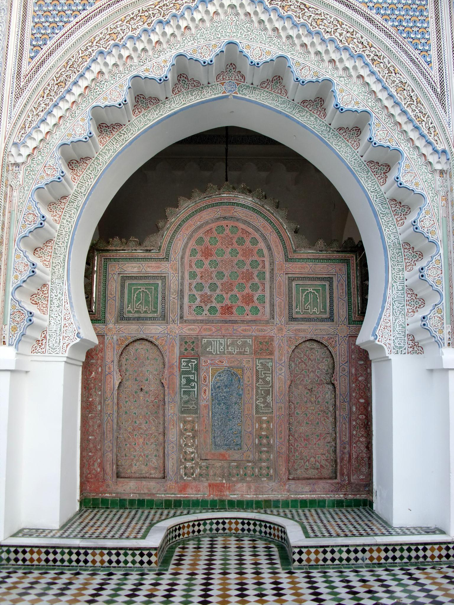 Al-Karaouine University (Al-Qarawiyyin) in the city of Fes, Morocco